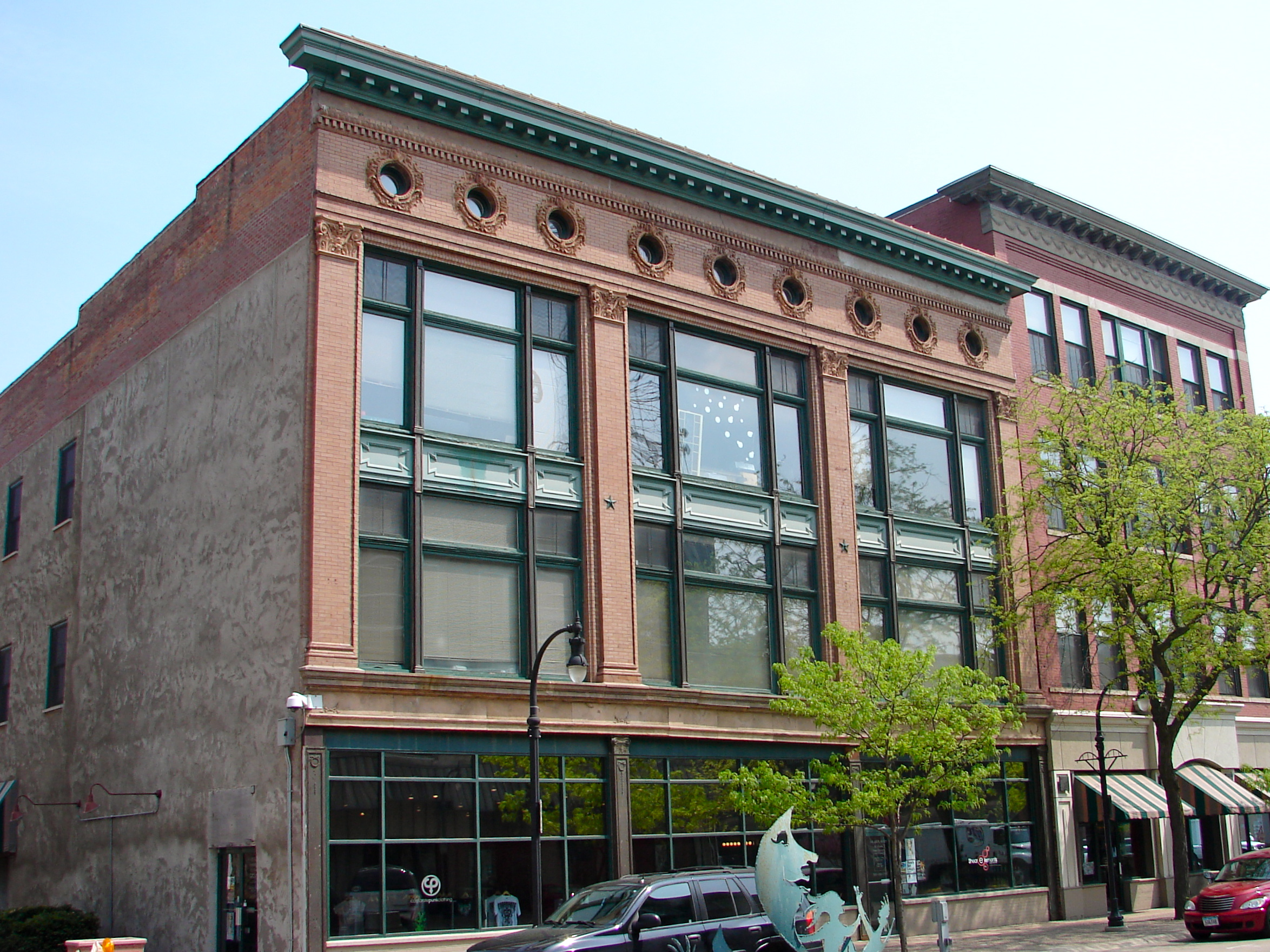 Peoples National Bank Building-Fries Building on the NRHP since November 22, 1999. 1729–1731 and 1723-1727 2nd Avenue, Rock Island, Illinois. Fries Building to the left, Peoples National Bank to the left. Two adjoining commercial buildings in downtown Rock Island. Both were built in the Classical Revival style in the late 19th century.